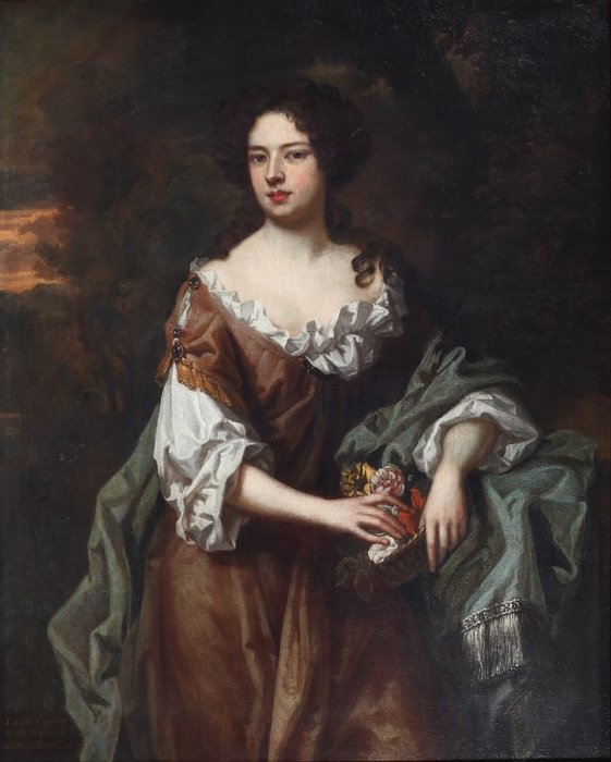 Catherine Purcell (c.1657-1697) Inscribed lower left 'Lady Copley First Wife of Sr: Godfrey Copley'. C.1680. Oil on canvas in a giltwood frame. Dimensions: 126x102cm